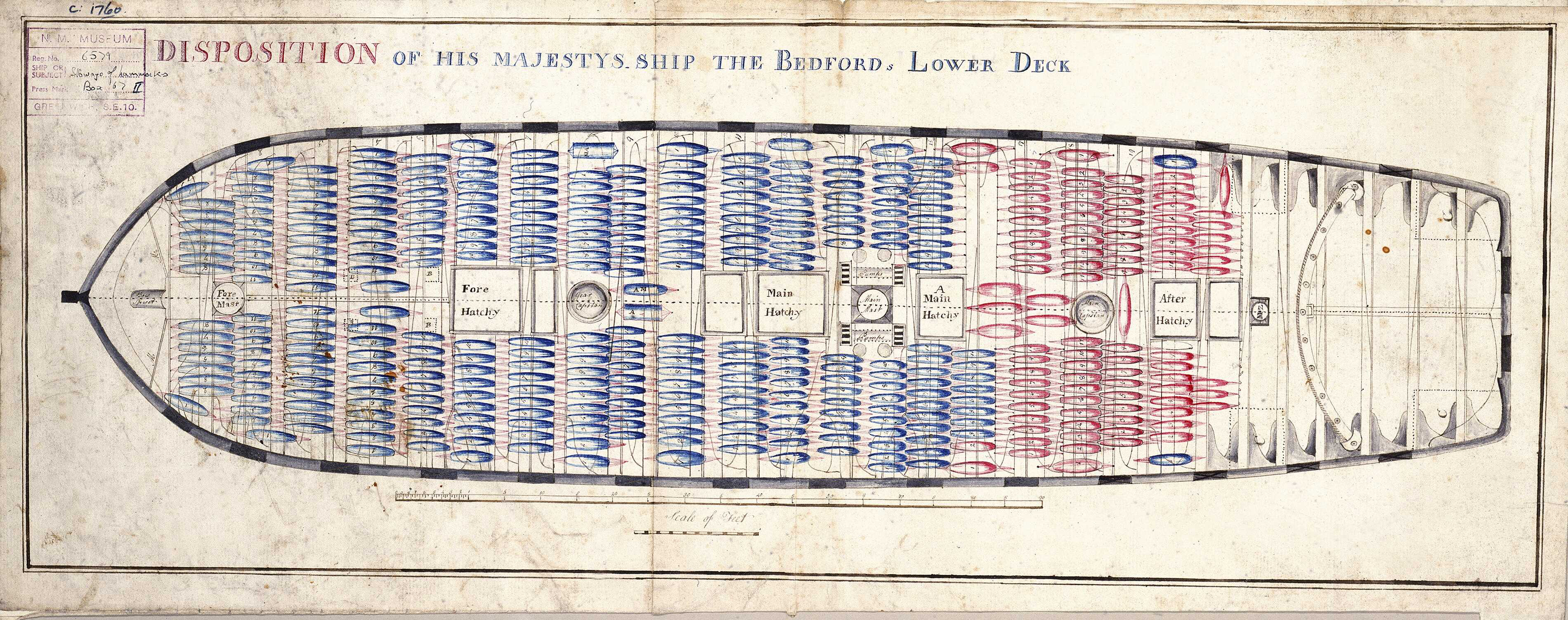 'Bedford' (1775) Scale: Graduated Bar Scale. A plan showing the hammock layout with colour coding on the lower deck of 'Bedford' (1775), a 70 gun Third Rate, two decker. It is thought that the hammocks indicated in blue represent the sailors; those in red, the marines. Plan of the lower deck of the 'Bedford'